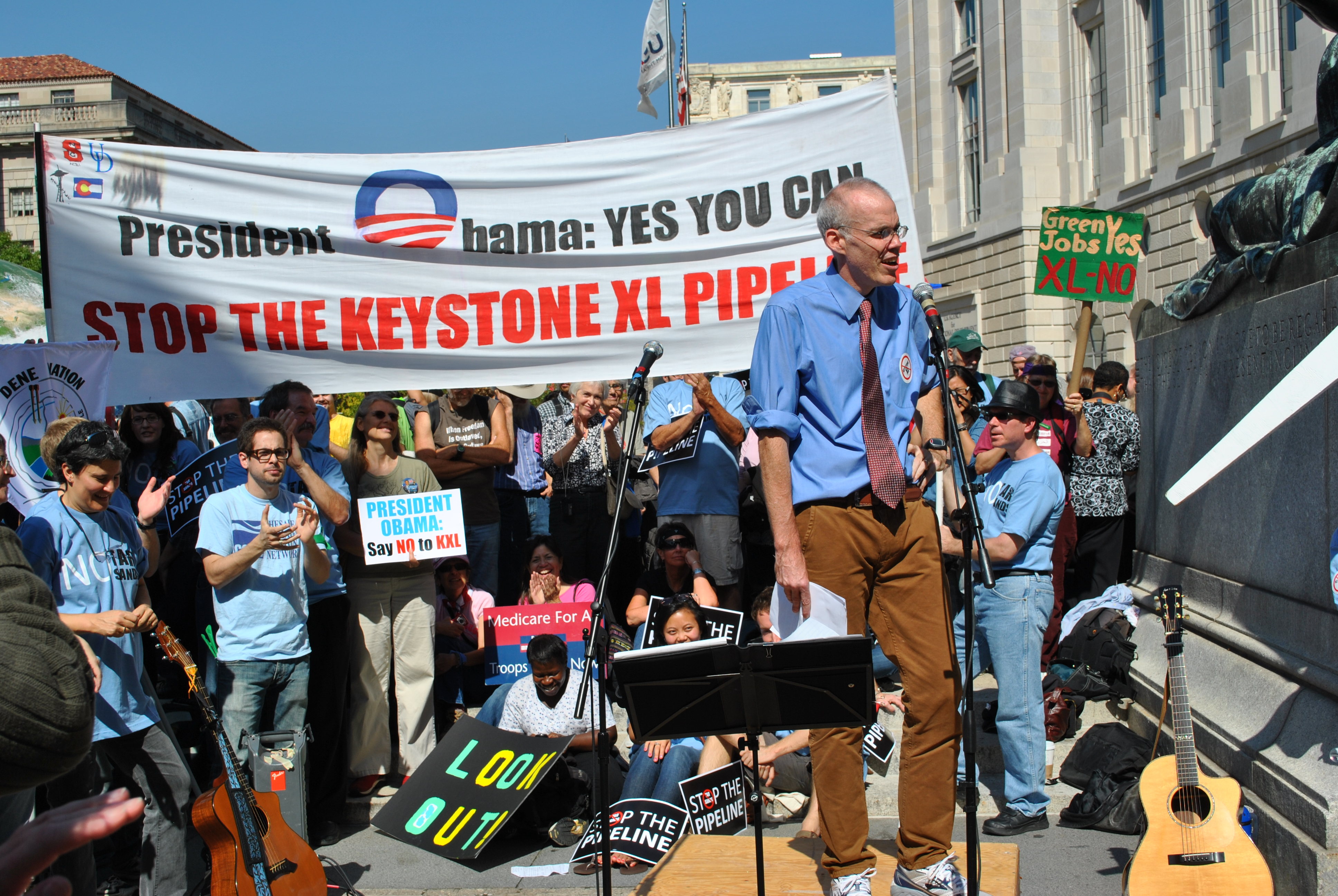 Stop the Keystone XL pipeline rally, outside the State Department hearing at the Ronald Reagan building, on 7 October 2011.